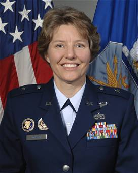 LtGen Michelle D. Johnson, USAF